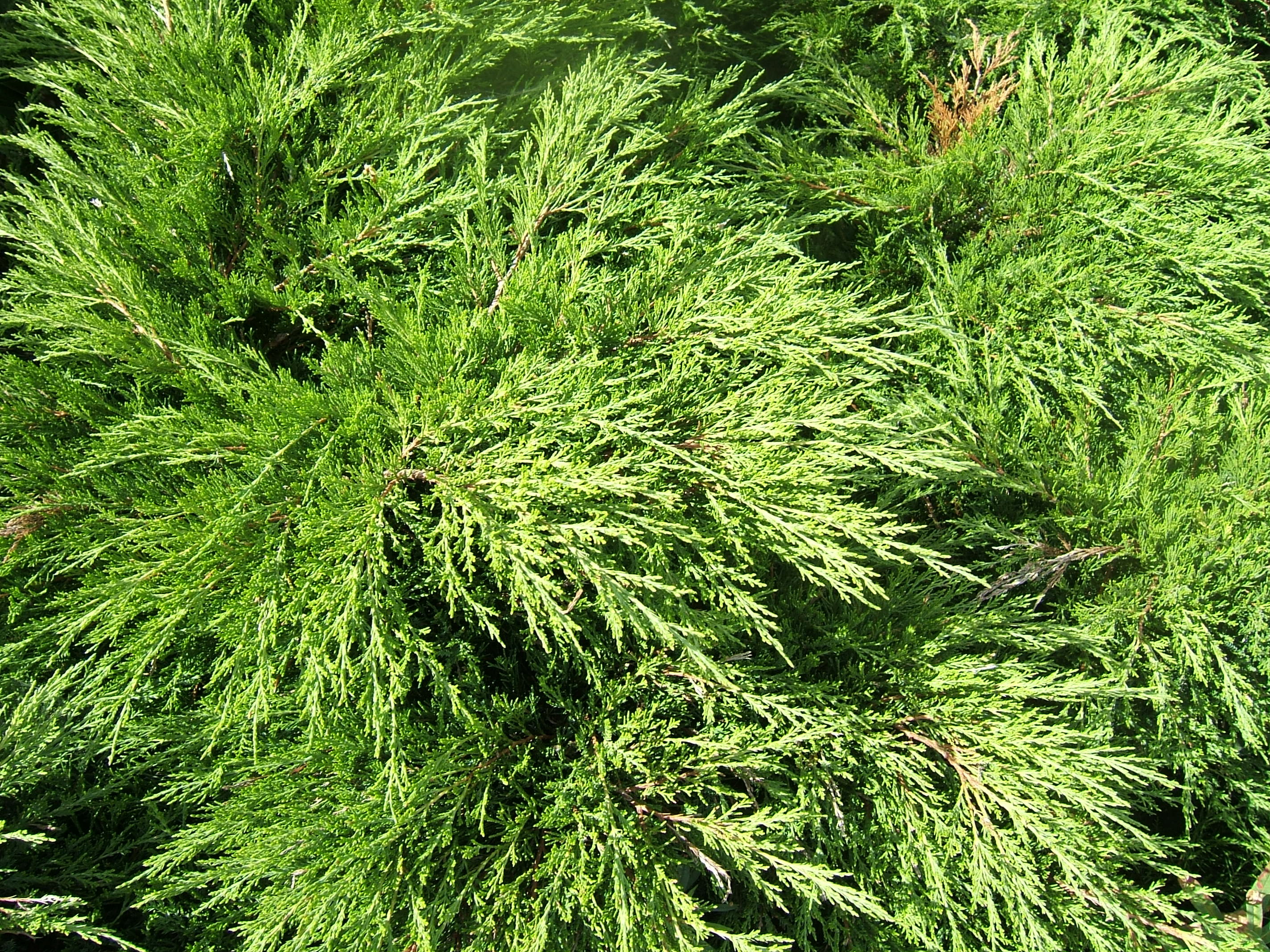 Juniperus sabina, cultivated, Newcastle, Northumberland, UK